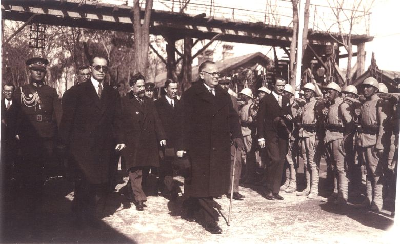 Litvinov's visit to Turkey in October 1931.